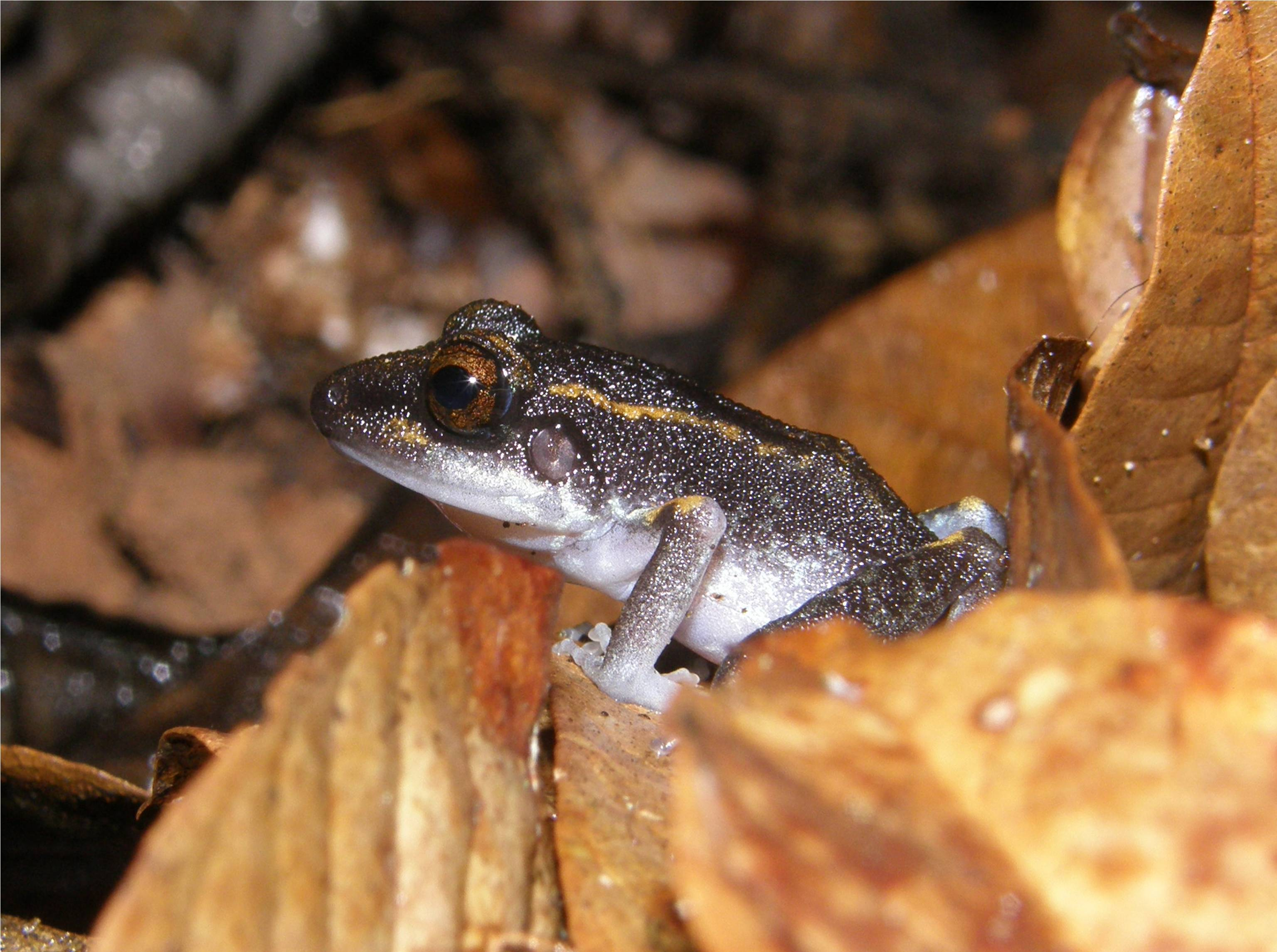 Eleutherodactylus fitzingeri